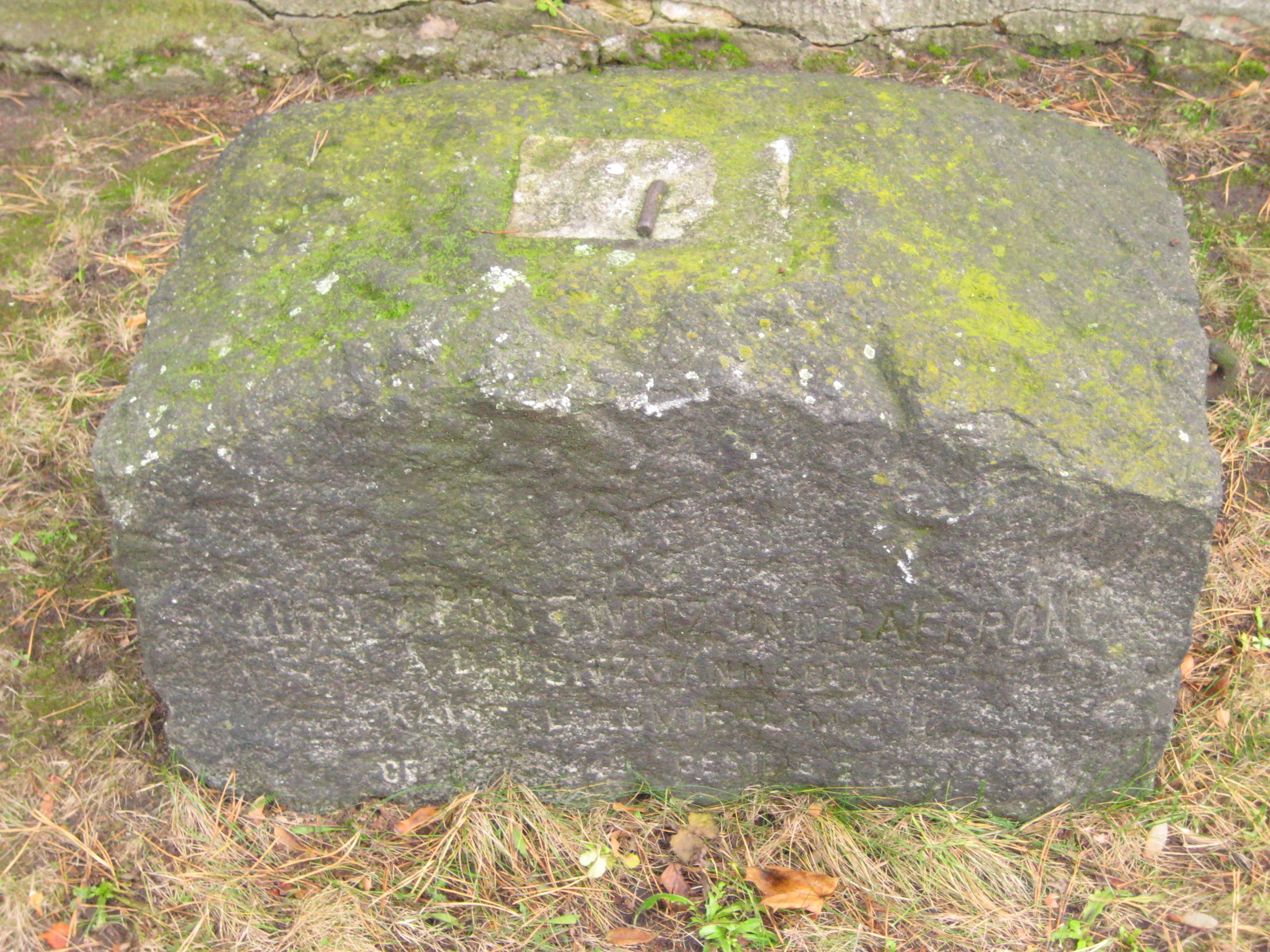 fragment of gravestone on the grave of Kurt von Prittwitz und Gaffron (1849-1922) on Invalidenfriedhof cemetery in Berlin